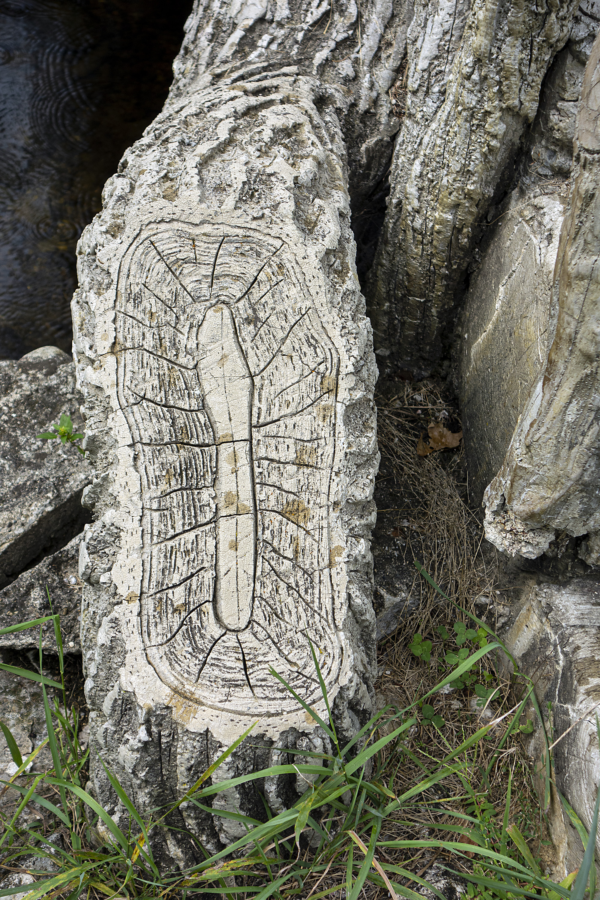 Detail of a bridge at The W. H. L. McCourtie Estate, now McCourtie Park, in Somerset Center, Michigan. The decorative technique is called el trabejo rustico (known in French as faux bois), the Mexican folk art tradition where wet concrete is sculpted to look like wood.